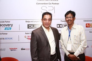 Social activist M.B. Nirmal with film artist Kamal Haasan in Chennai.